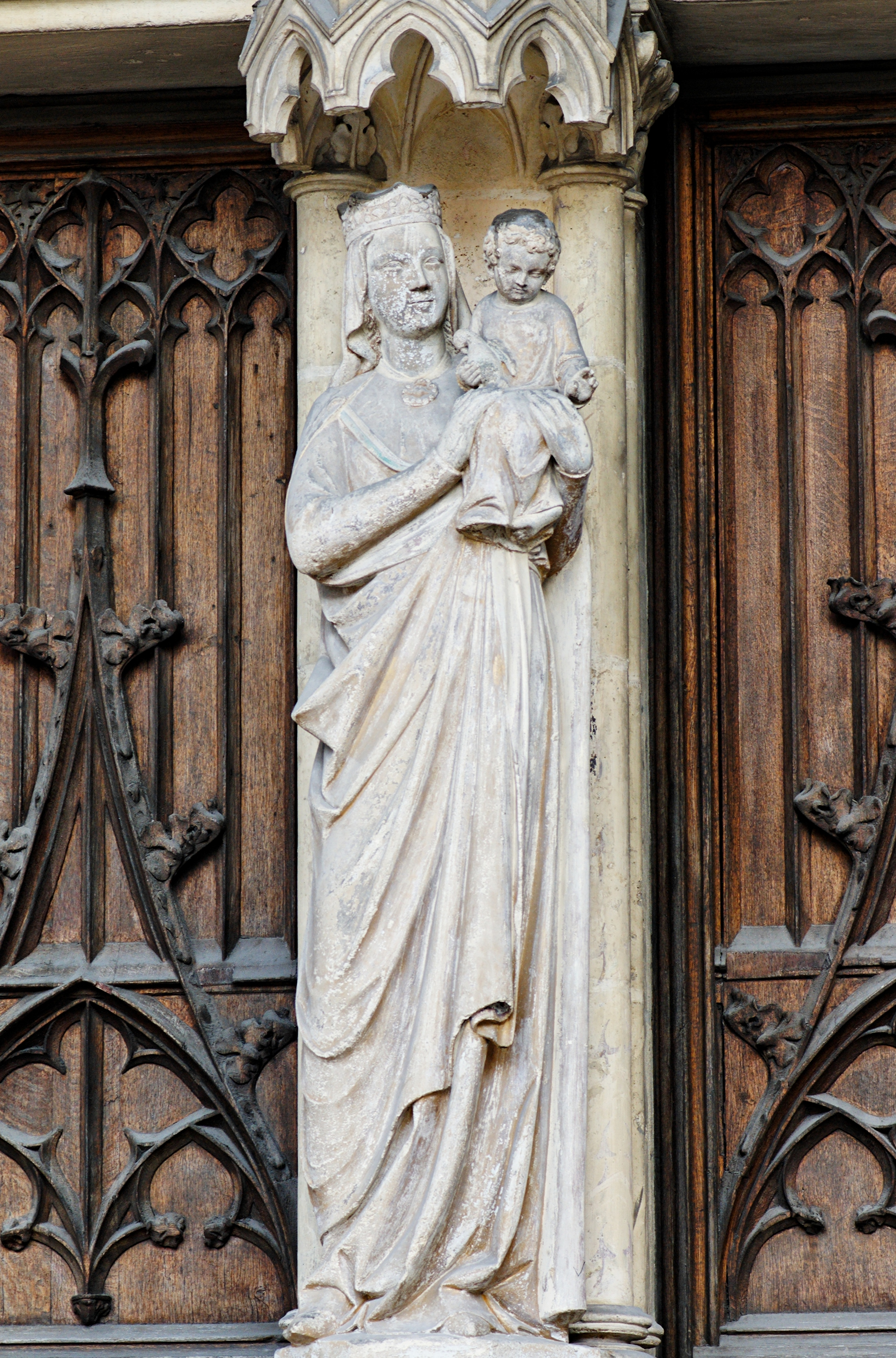 Madonna and Child by Louis Desprez (1841) after the gothic original. Main gate of Saint-Germain l'Auxerrois, Paris.